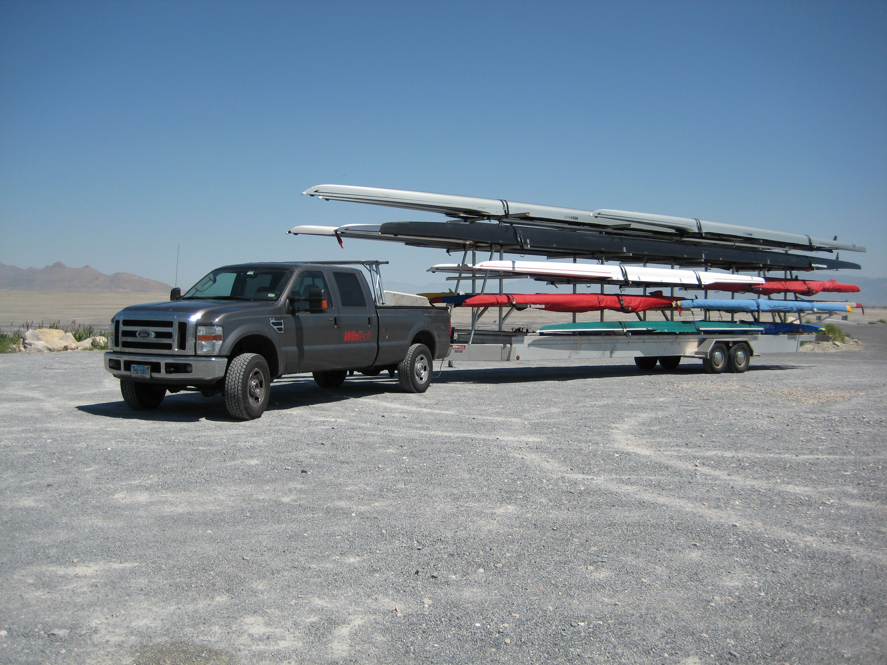 Photo of a 41 foot aluminum trailer in Salt Lake City, UT